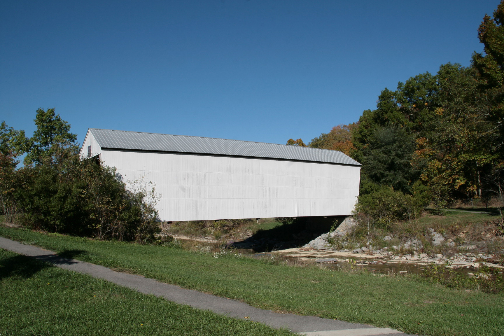 Walcott Covered Bridge in Bracken County, Ky. Photo by Greg Hume